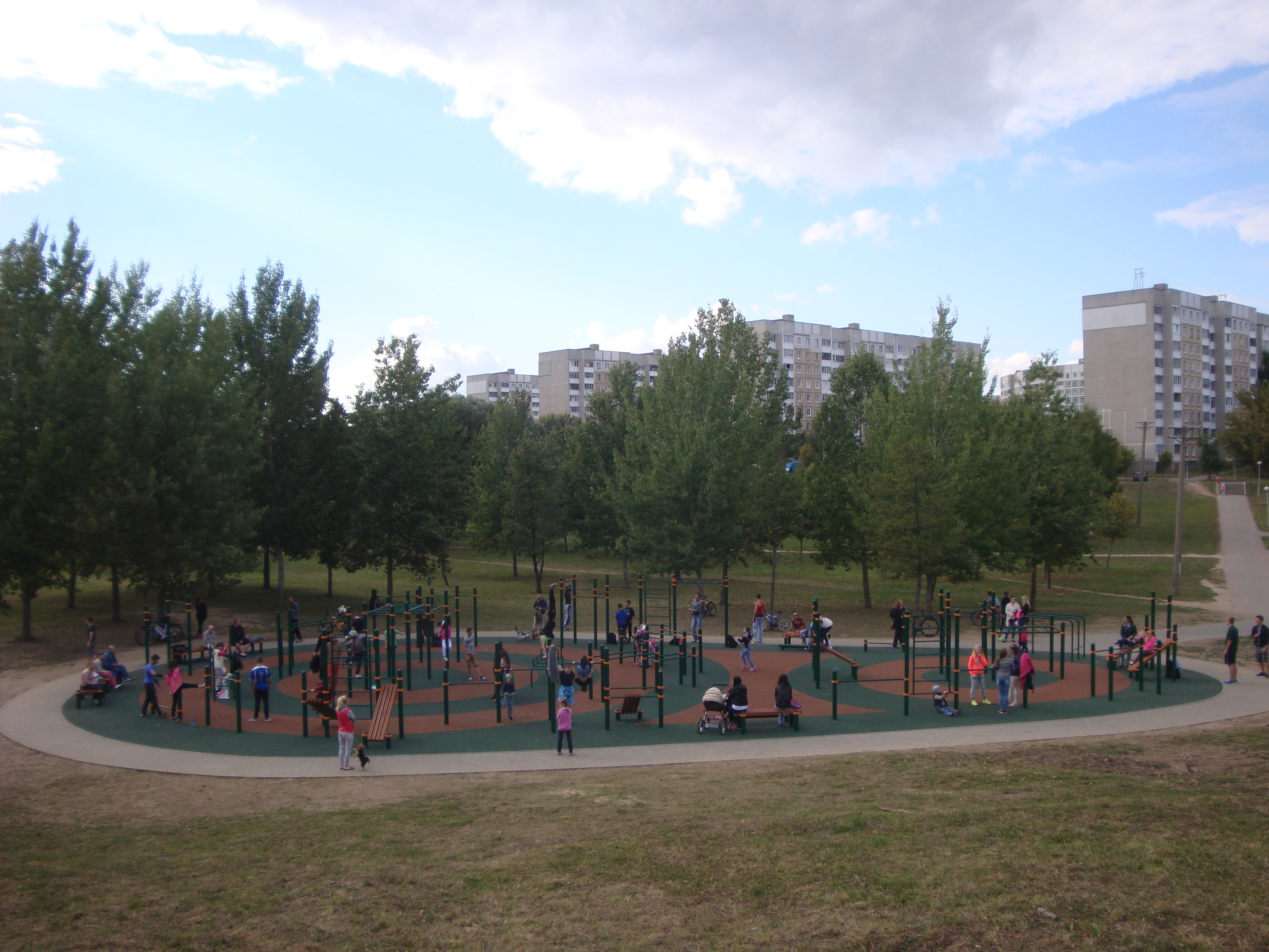 the sports playground for street workout in Michail Paulau Park in Minsk city (Belarus), 13 September 2015 AD